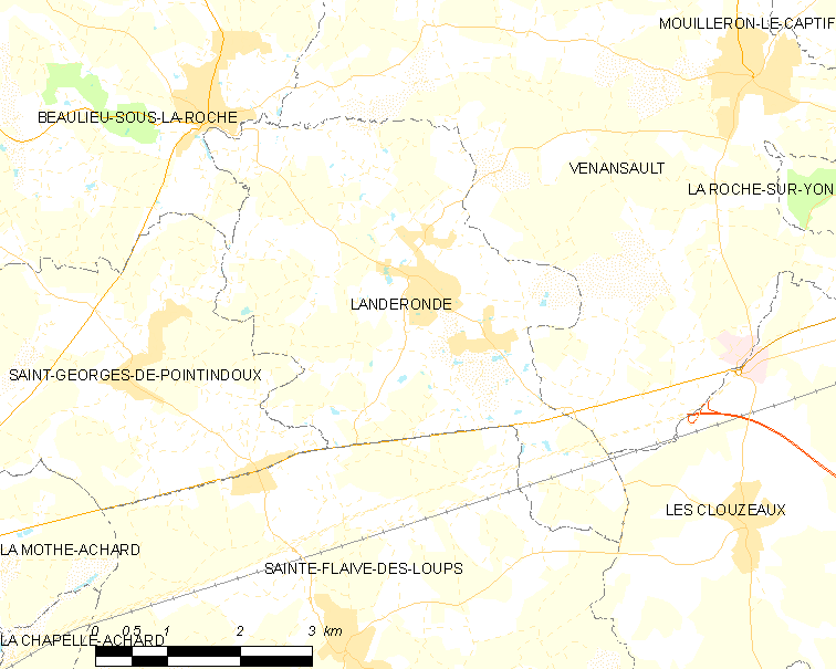 Map of French municipality Landeronde